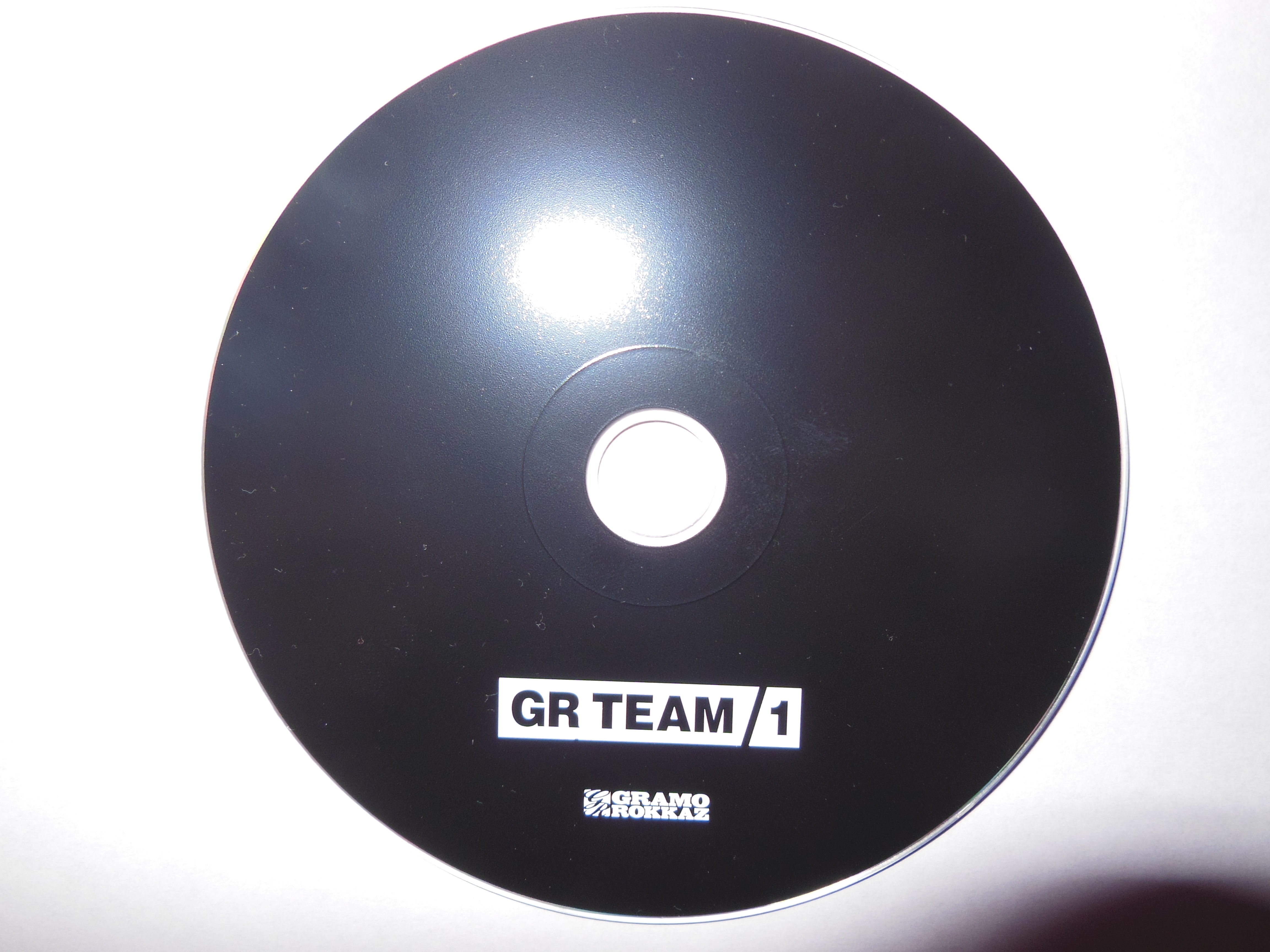 GR Team 1 CD